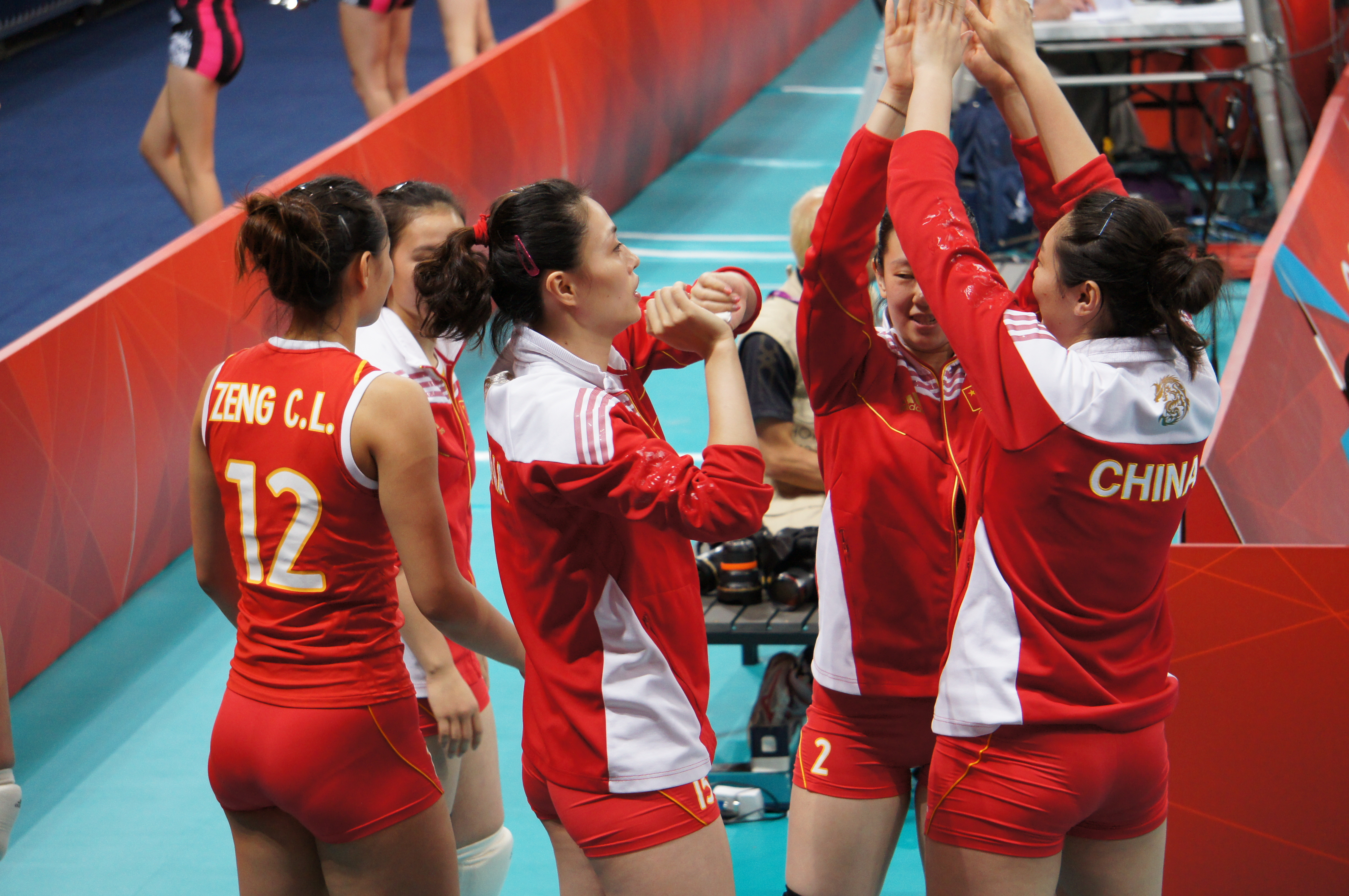 China national volleyball team at the 2012 Summer Olympics